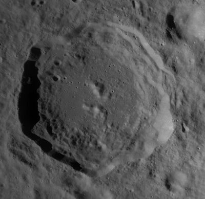 LROC WAC image (No. M119076229ME). Calibrated by LROC_WAC_Previewer.